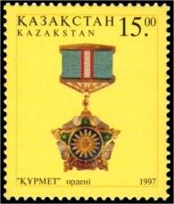 Stamp of Kazakhstan